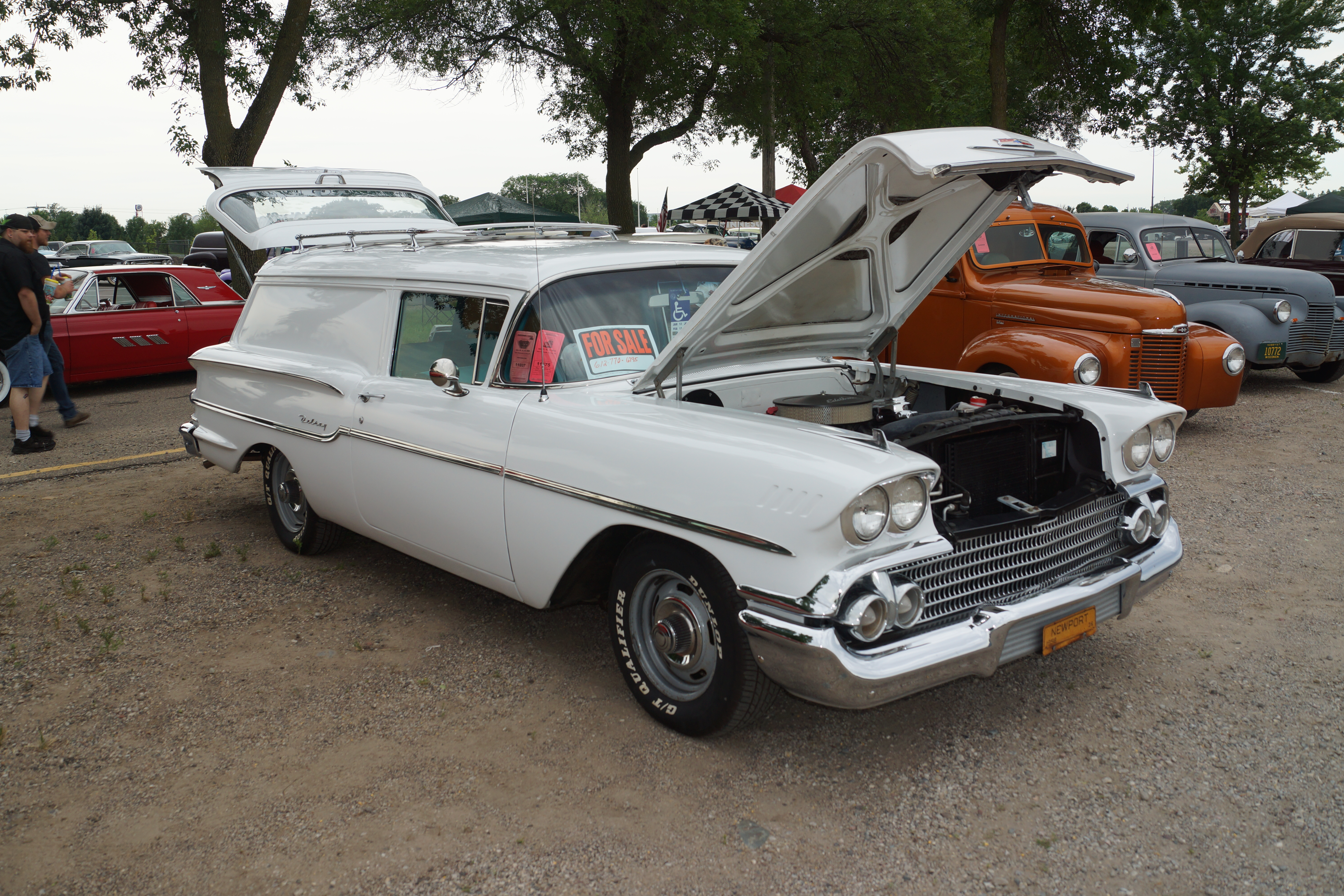 MSRA “BACK TO THE 50′s” 43nd Annual Car Show June 17-19, 2016 State Fairgrounds St. Paul Minnesota Click here for more car pictures at my Flickr site.